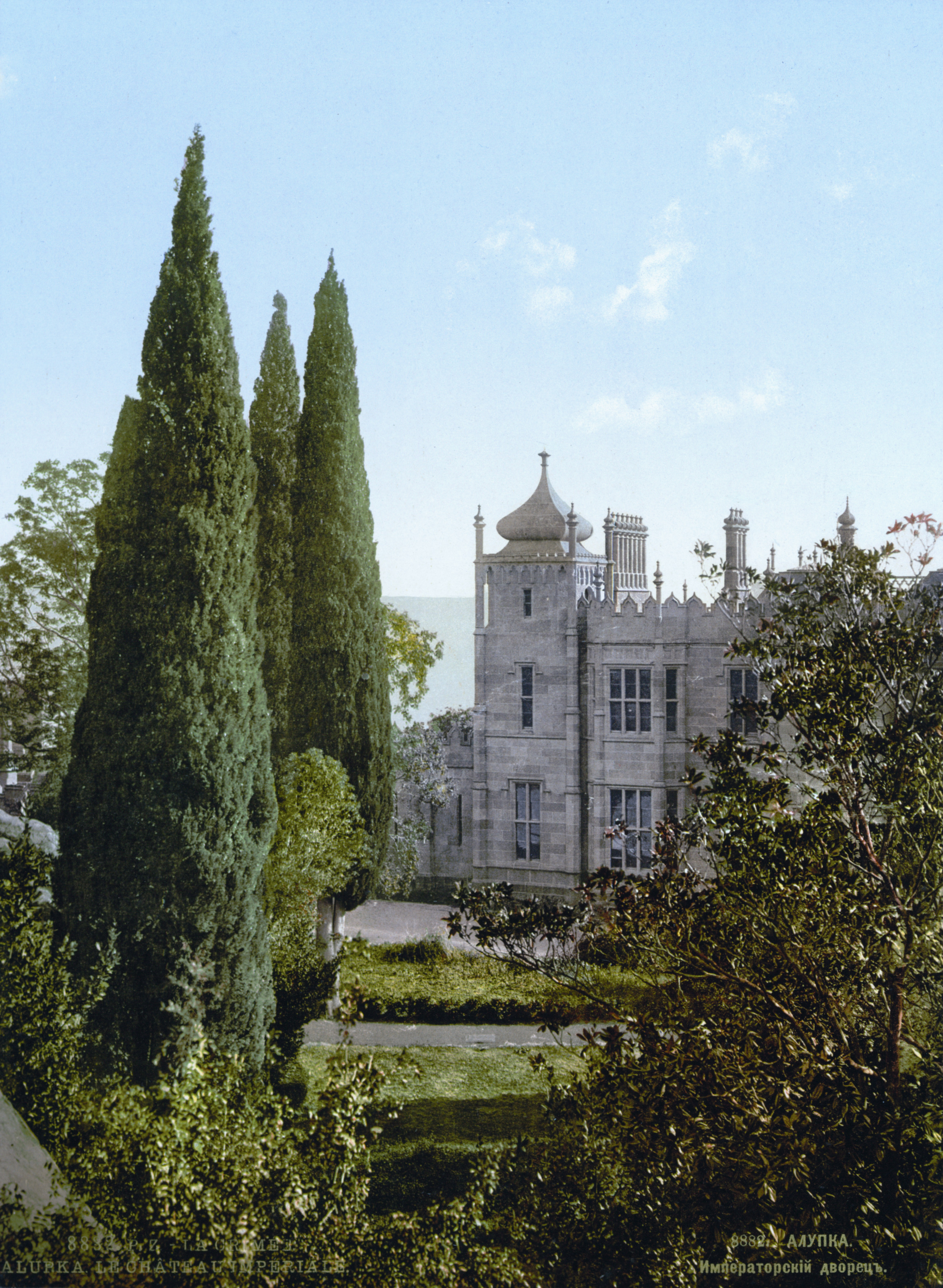 19th-century vintage postcard of the Woronzow Castle in Alupka, Crimea.